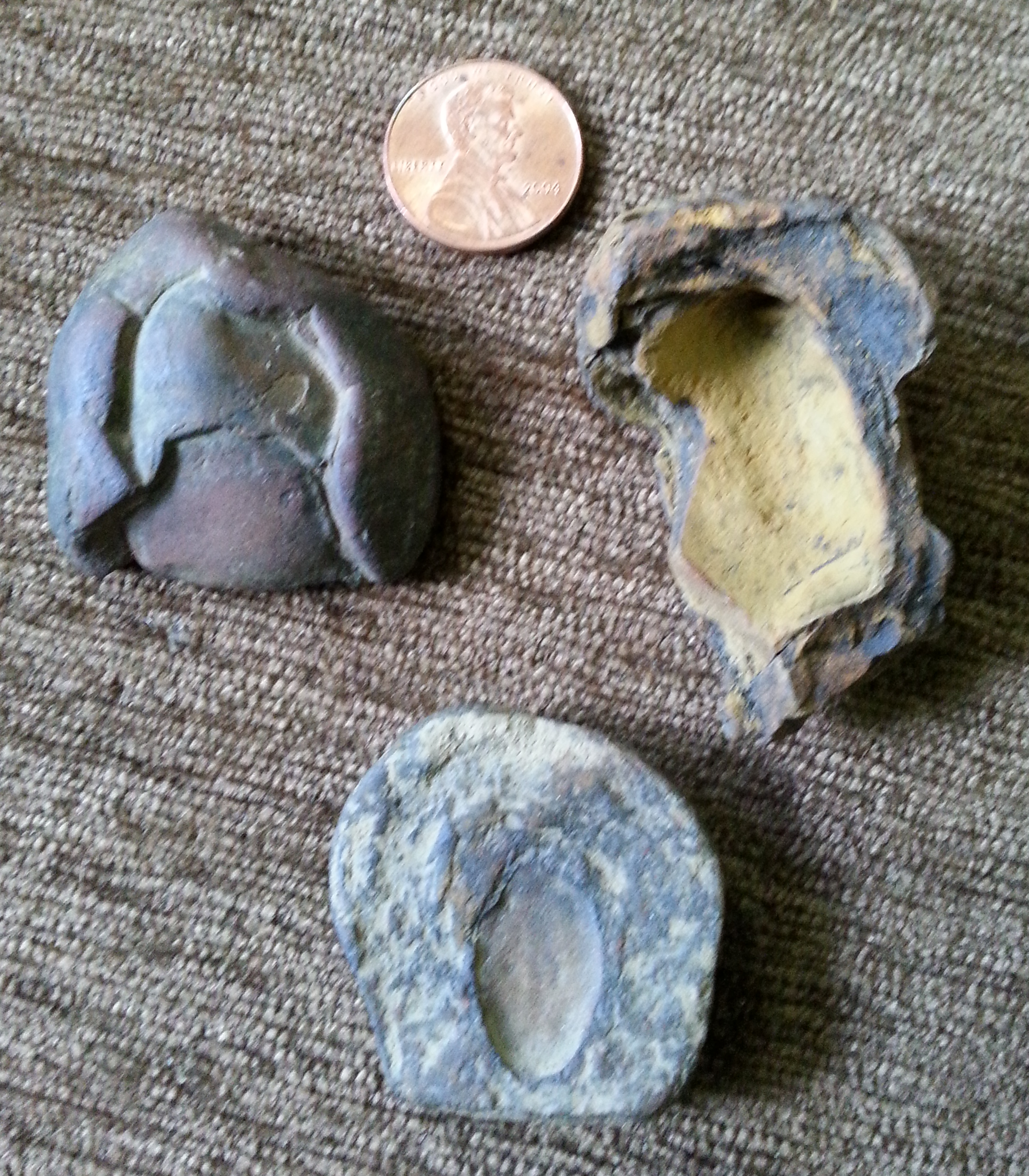 Samples of small rock and creations found at Hells Hollow State Park in Pennsylvania.